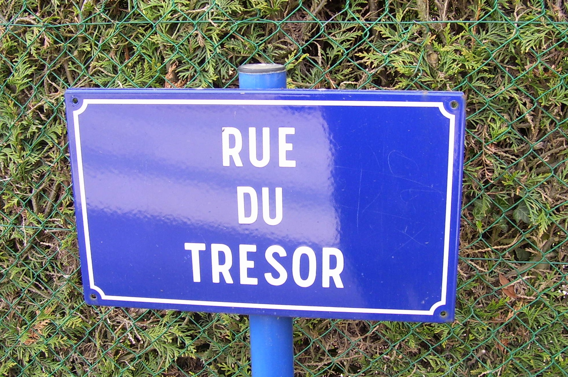 Rue du Trésor ('treasure street') in the hamlet Villeret (Berthouville, Eure, France).